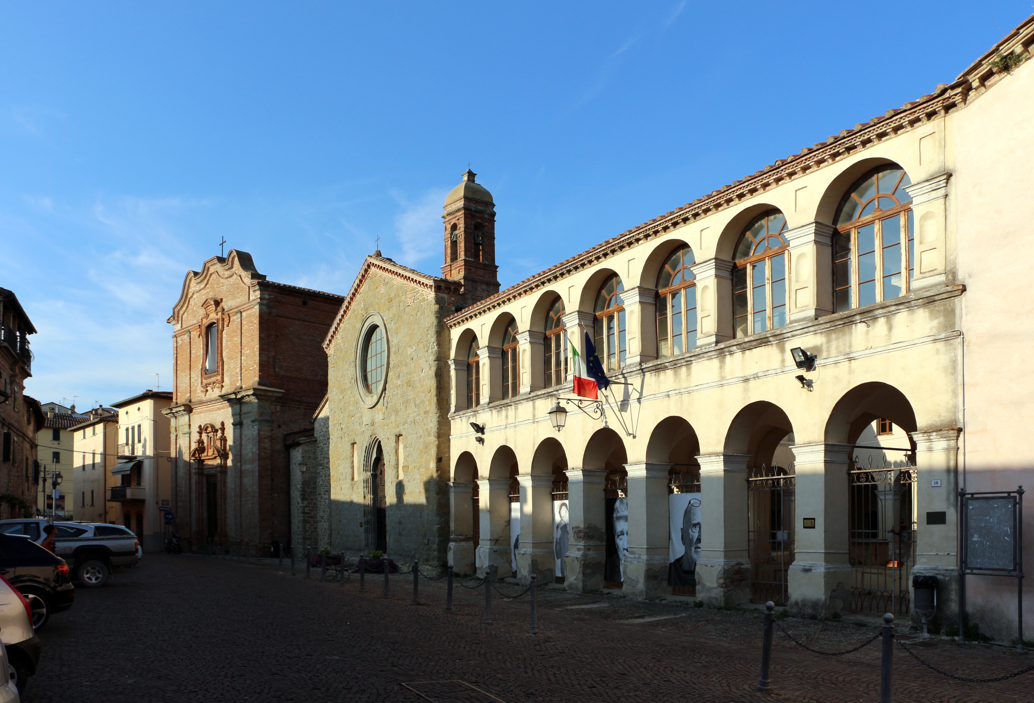 San Francesco (Umbertide)